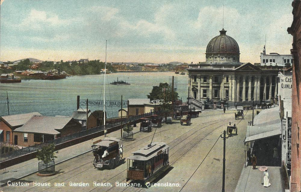 Customs House dominates the photograph including the copper dome. The view shows a variety of transportation including horsedrawn carts, horsedrawn buses and a brisbane tram. To the left of the postcard is the Adelaide Steamship Company's wharf.